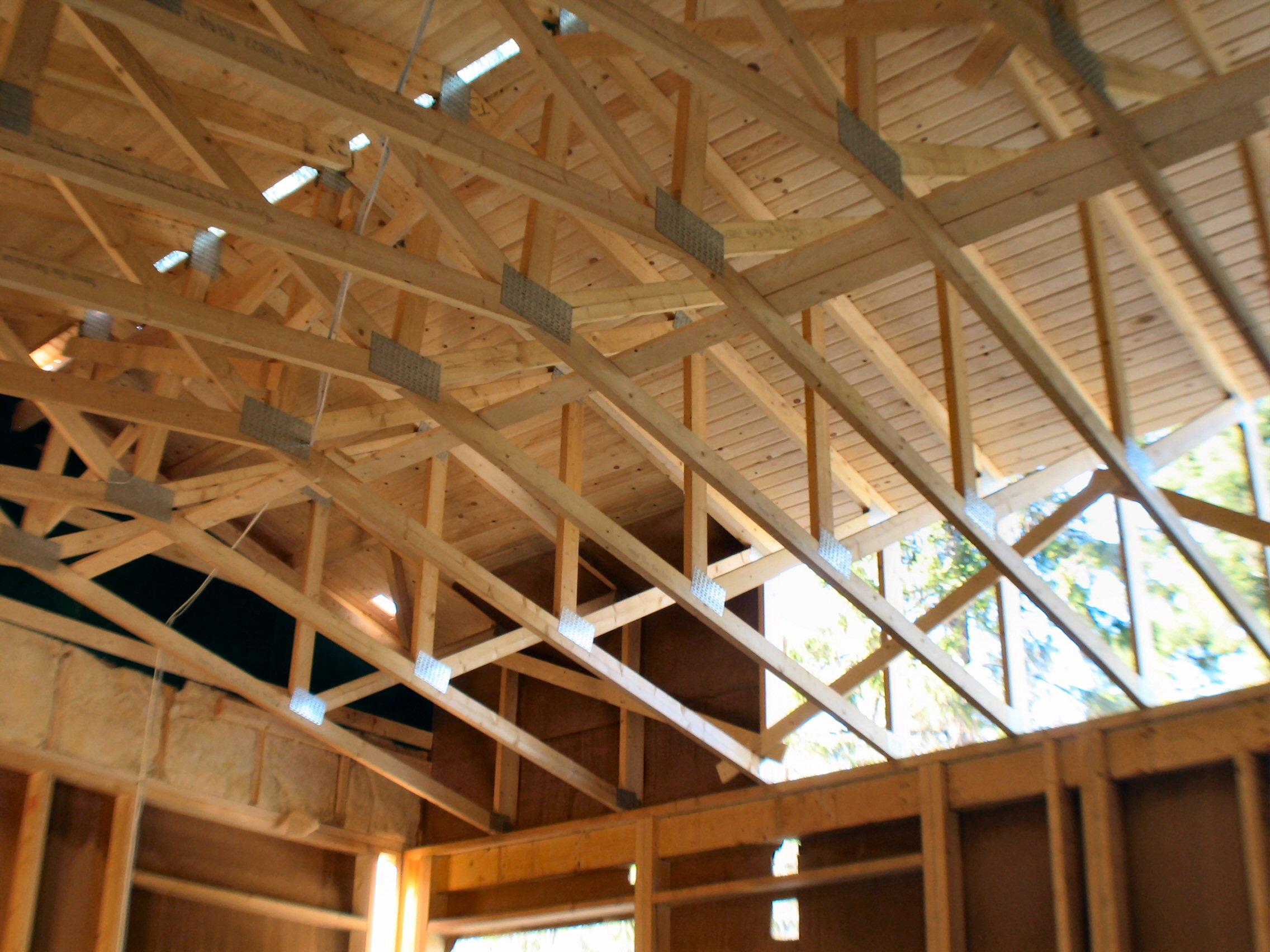 Prefabricated wooden trusses, nailed plate joints. Finland 2005.